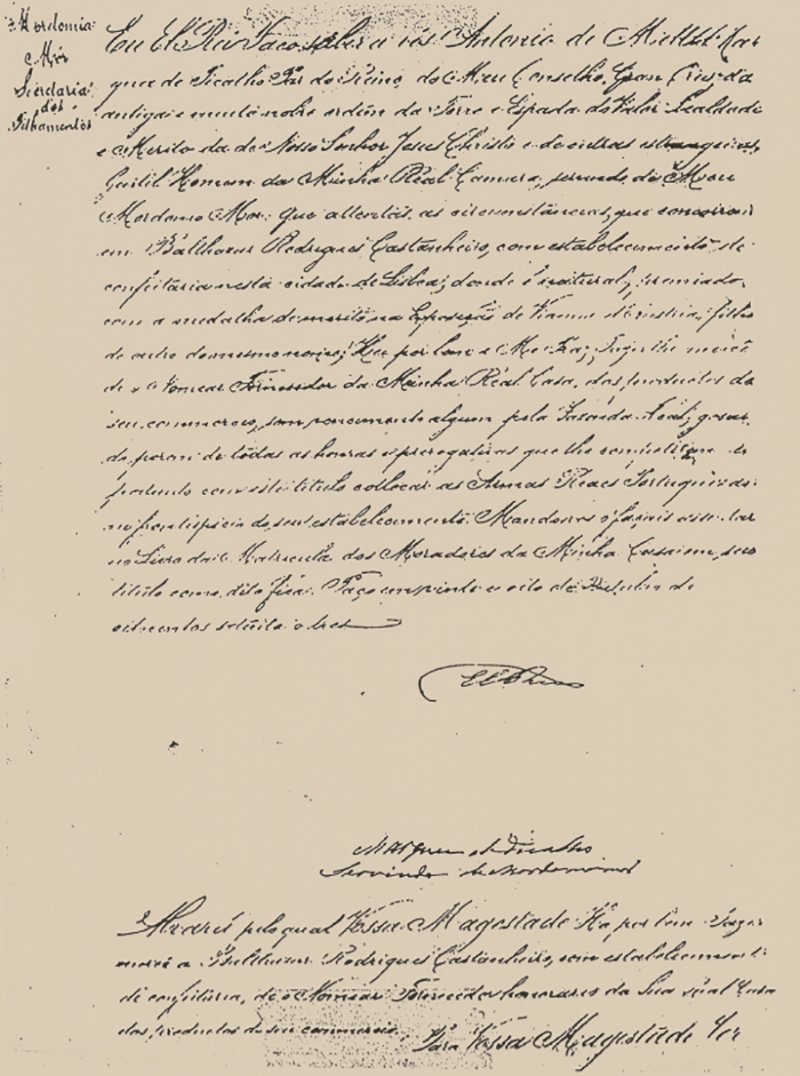 Royal Warrant of 28 October 1873, allowing the Confeitaria Nacional bakery to advertise royal patronage. Features the signatures of King Luís I of Portugal and of the Marquis of Ficalho as Mordomo-mor (High Steward).